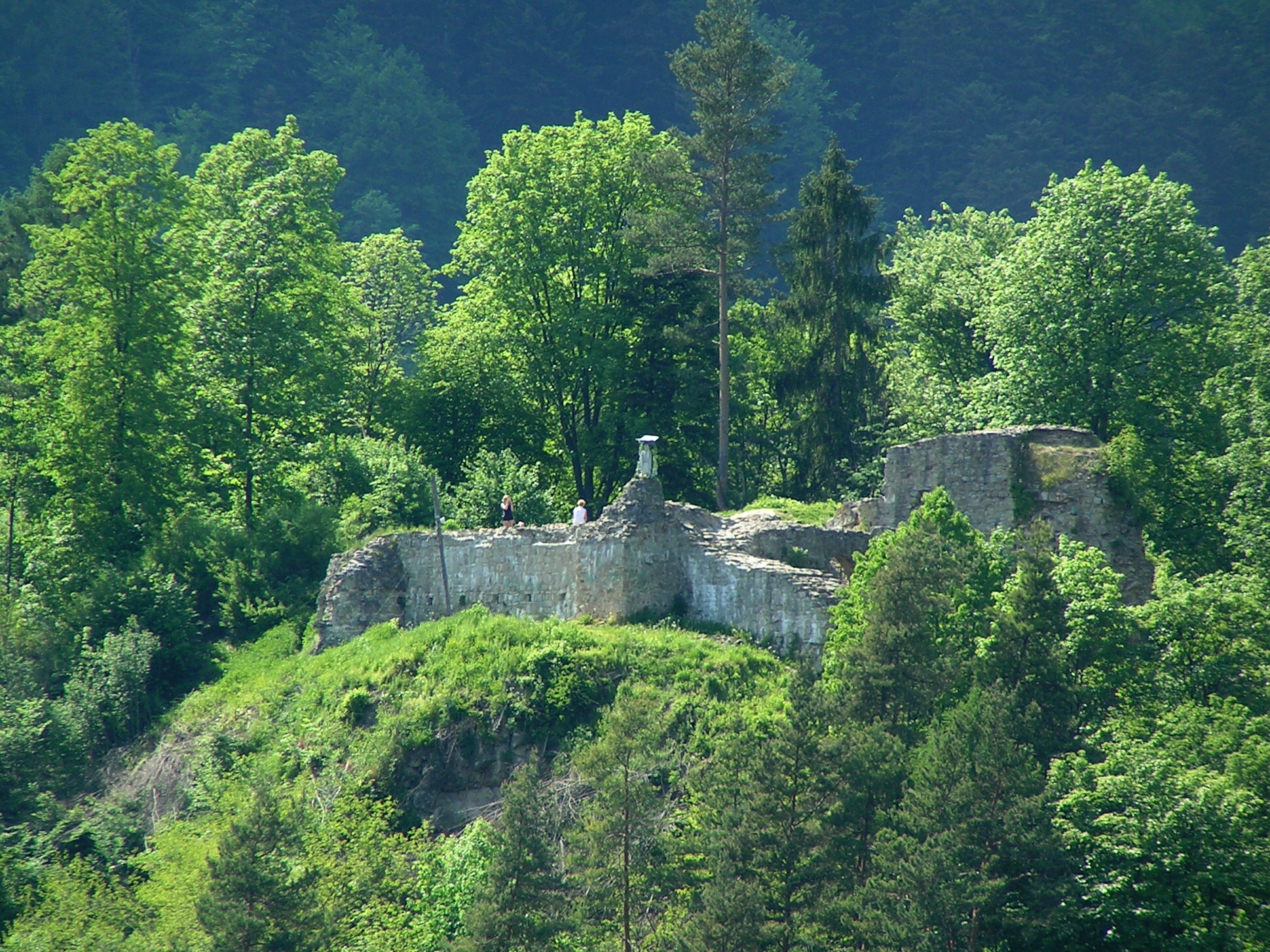 Ruins of the starosts' castle in Muszyna